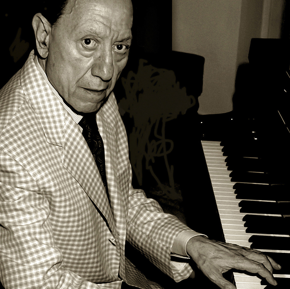 Renato Carosone portrait